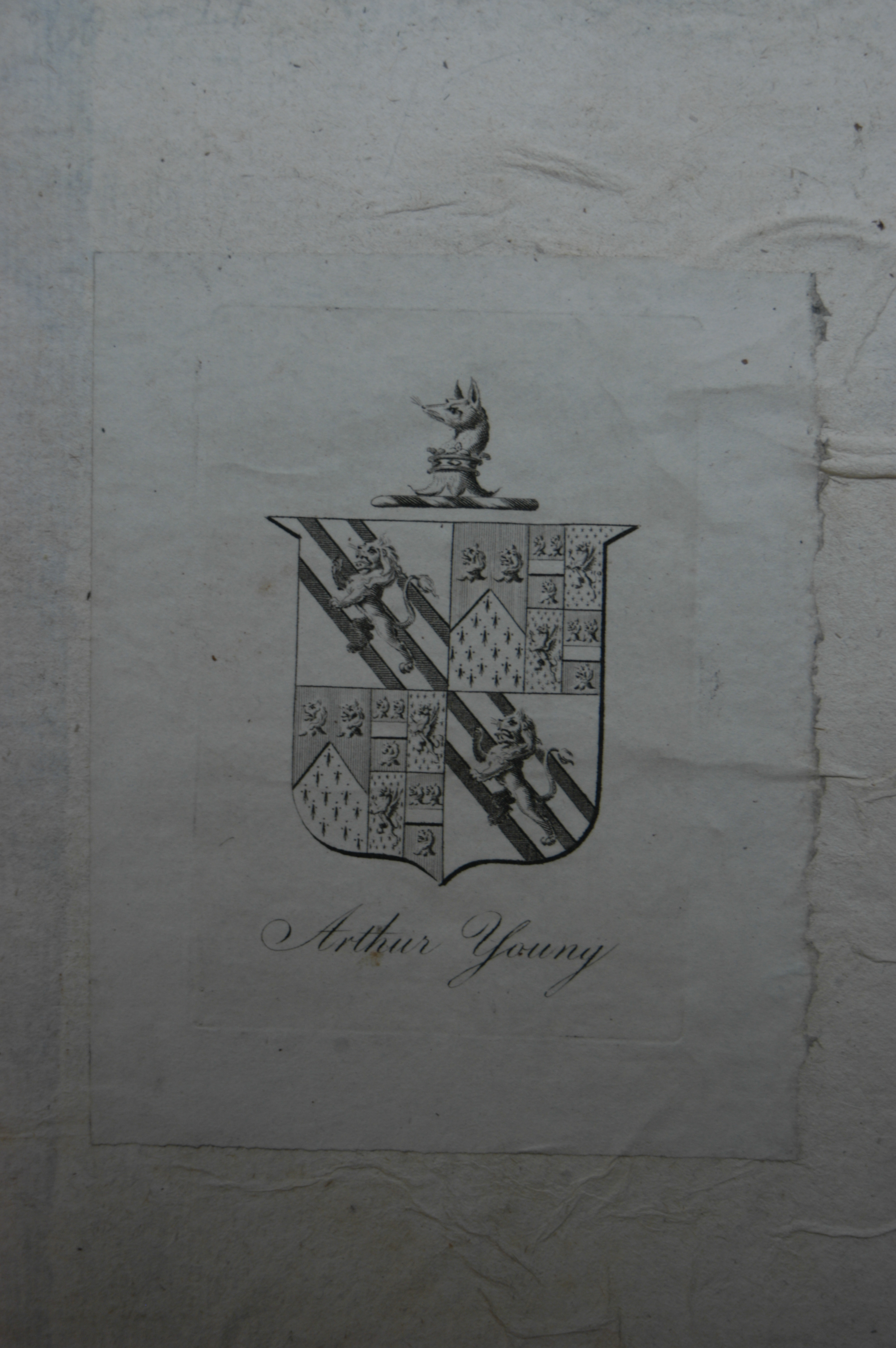 Photo by me (R. de SalisRodolph (talk) 23:19, 13 July 2014 (UTC)) of an Arthur Young (1741–1820) bookplate in a Royal Agricultural Society of England (RASE) book.